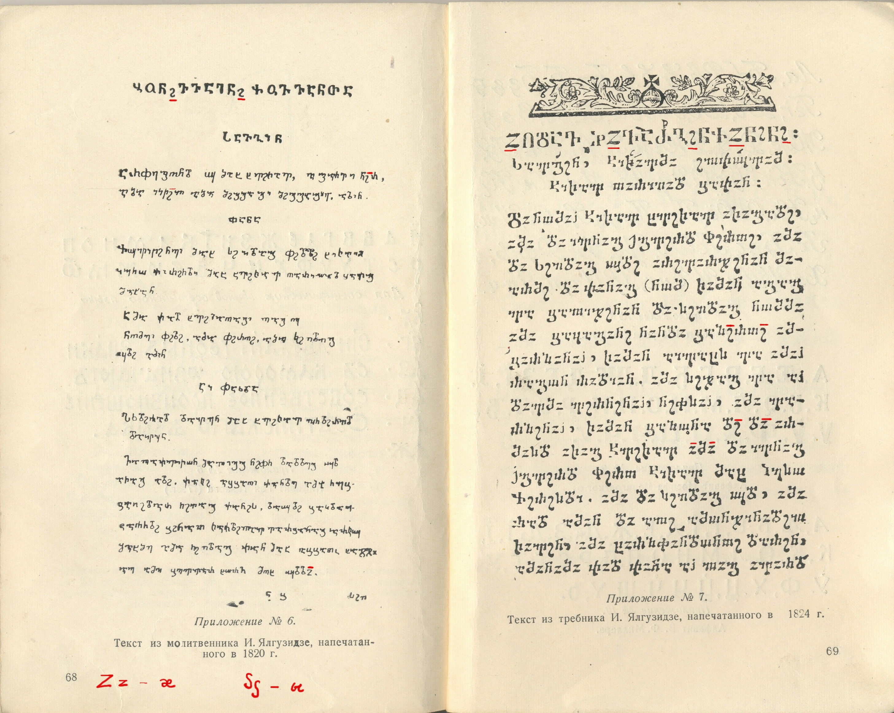 texts from Ialguzidze's Ossetic religious books in Georgian Khutsuri alphabet